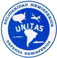 Emblem of UNITAS annual multi-lateral naval exercises, United States Navy.